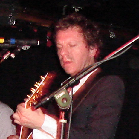 Belgian musician Tom Barman, lead singer for dEUS